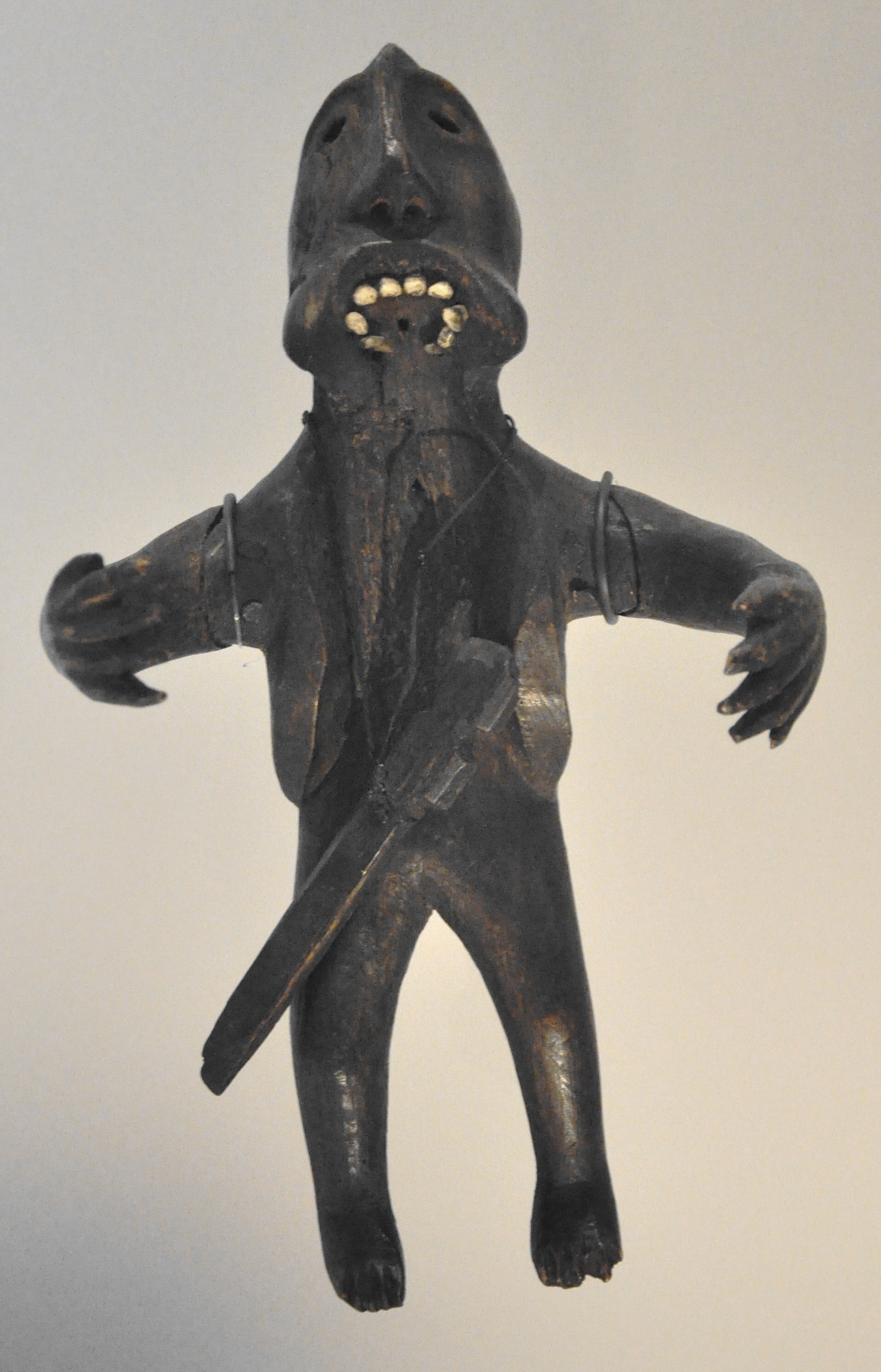 British Museum referenceAm1855,1126.169Detailed descriptionMale figure, with atlatl hung around his neck, made of wood, bone. Probably a drum handle. Height: 29 centimetres. Eskimo-Aleut, Colville RiverLocationRoom 24